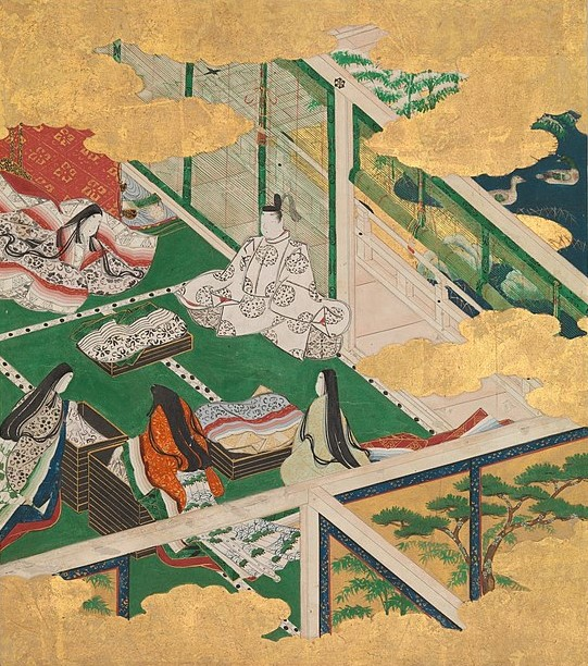 Tamakazura Scene from Genji monogatari